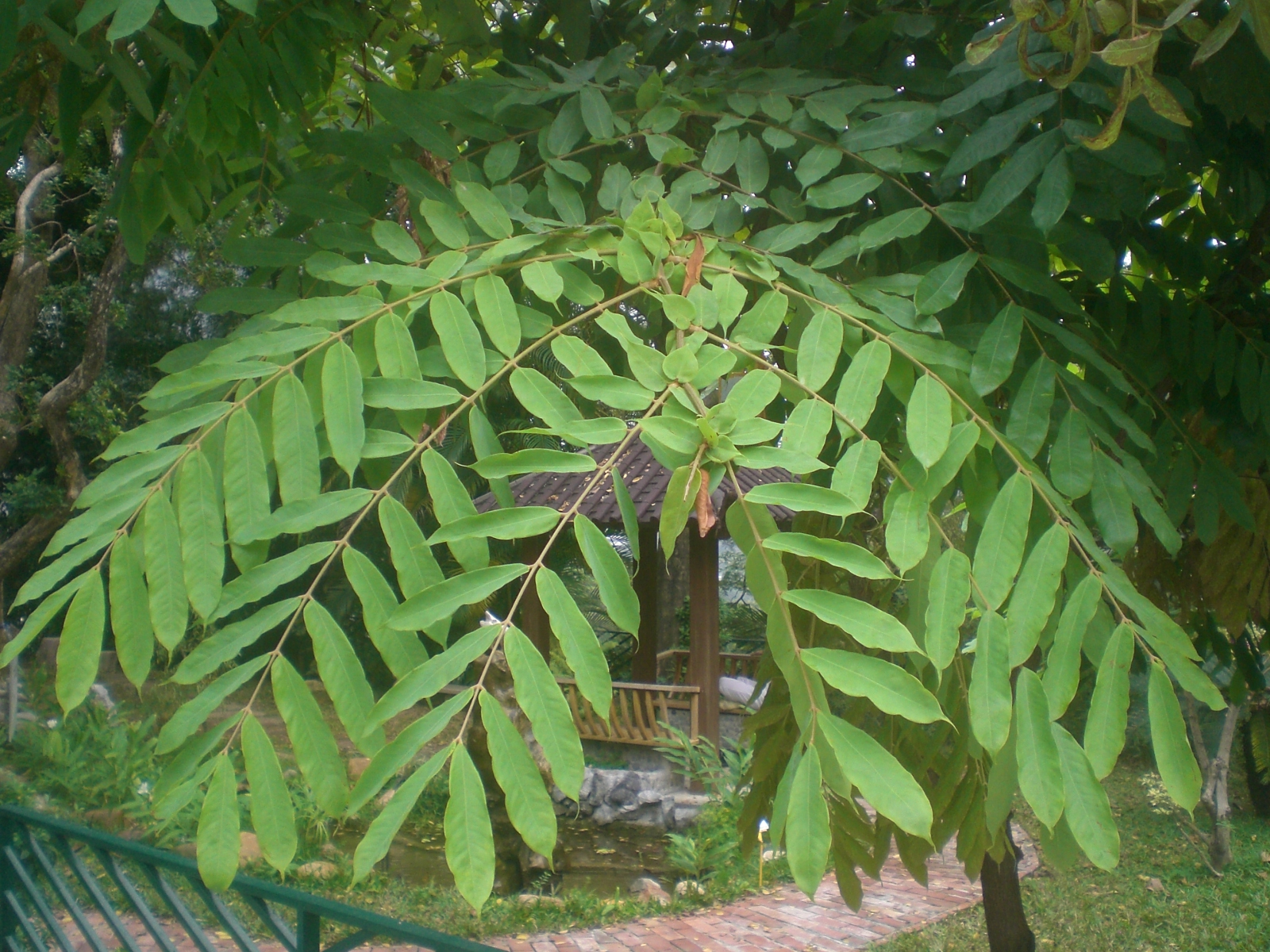 Brownea grandiceps Jacq.中環香港動植物公園 Hong Kong Zoological and Botanical Gardens